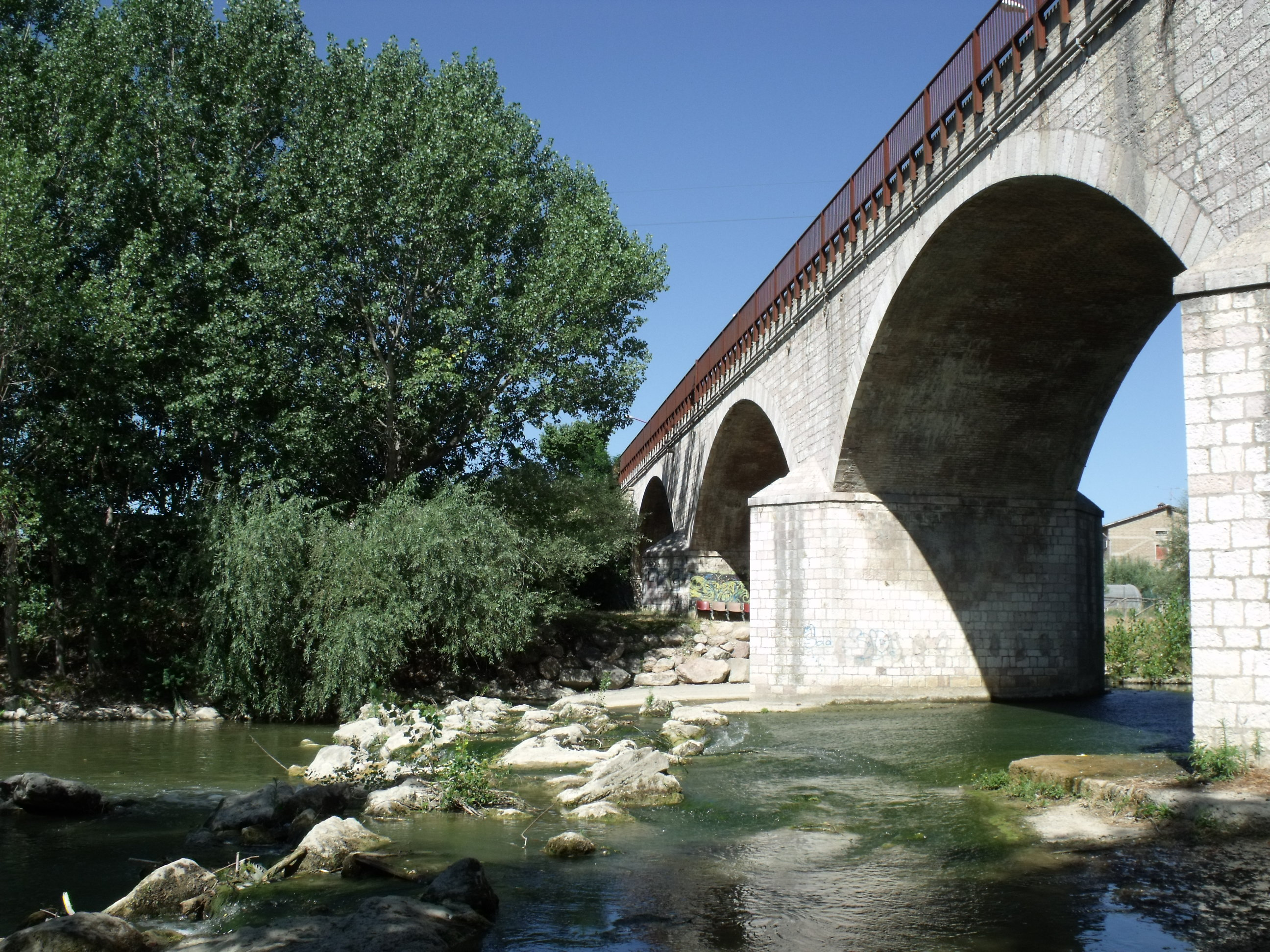 Chiascio River Brigde in Bastia Umbra, Province of Perugia, Umbria, Italy